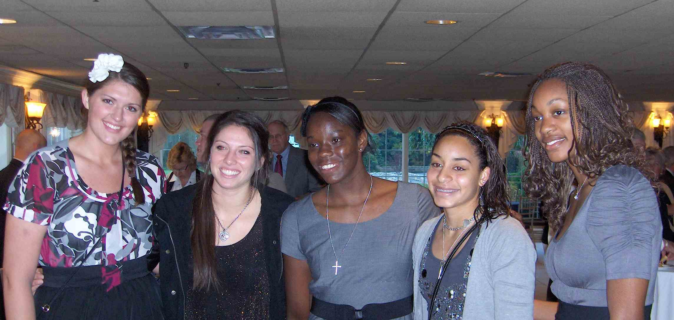 The five incoming freshman on the UConn Huskies basketball team: Stefanie Dolson, Lauren Engeln, Samarie Walker, Bria Hartley, and Michala Johnson